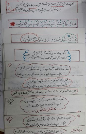 works related to questions and answers of esoteric faith